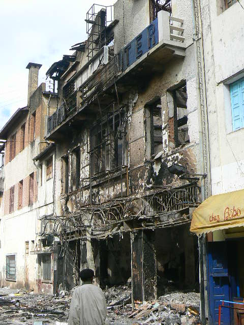 Destruction in Antananarivo